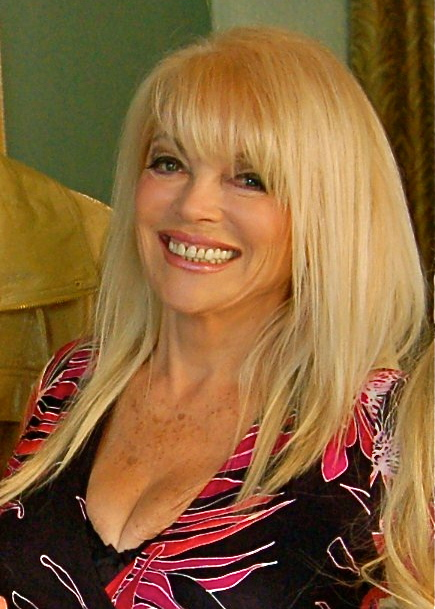 Ruth Landers biography photo.